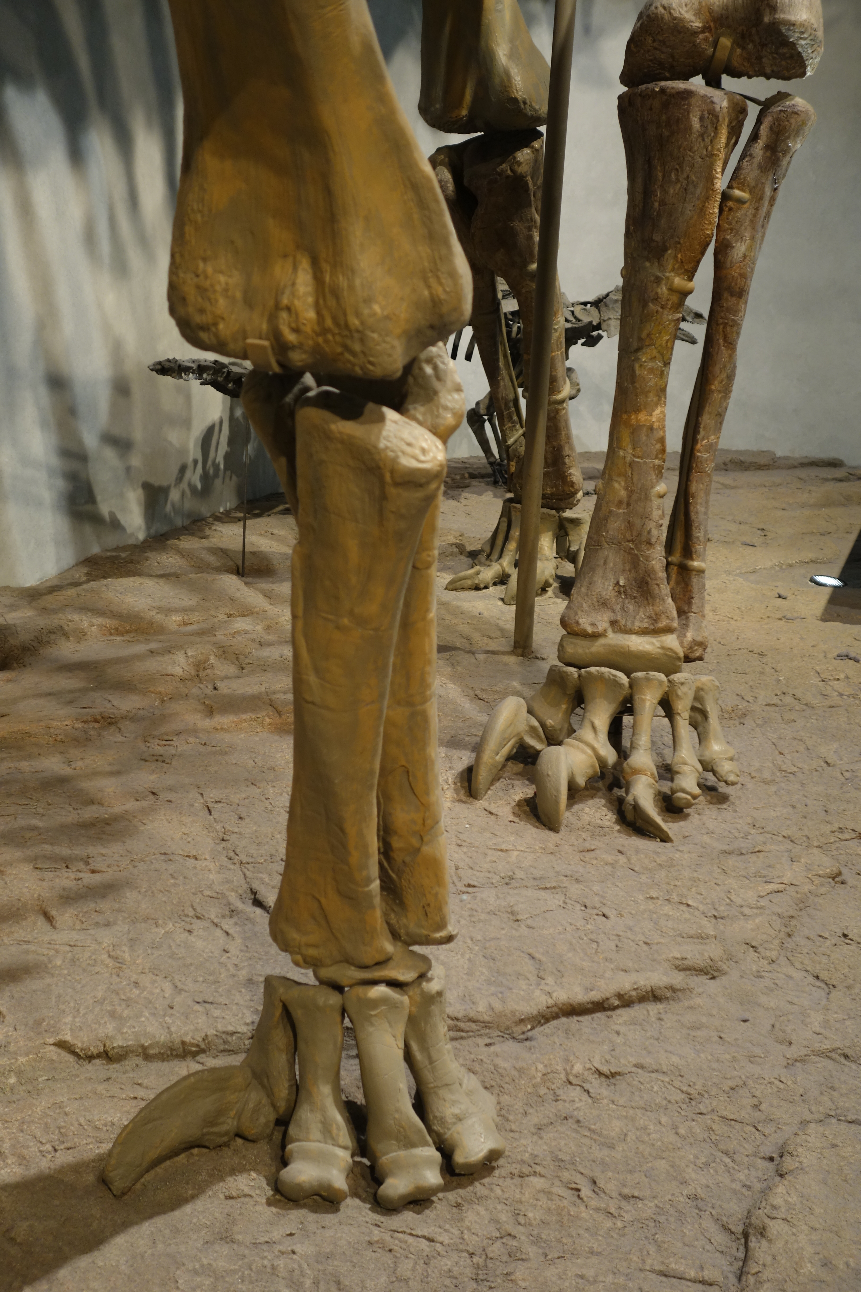 Diplodocus longus (specimen number DMNS 1494; Diplodocus sp. according to Tschopp et al. 2015) skeletal mount on display at the Denver Museum of Nature and Science. Detail of fore- and hindfoot.